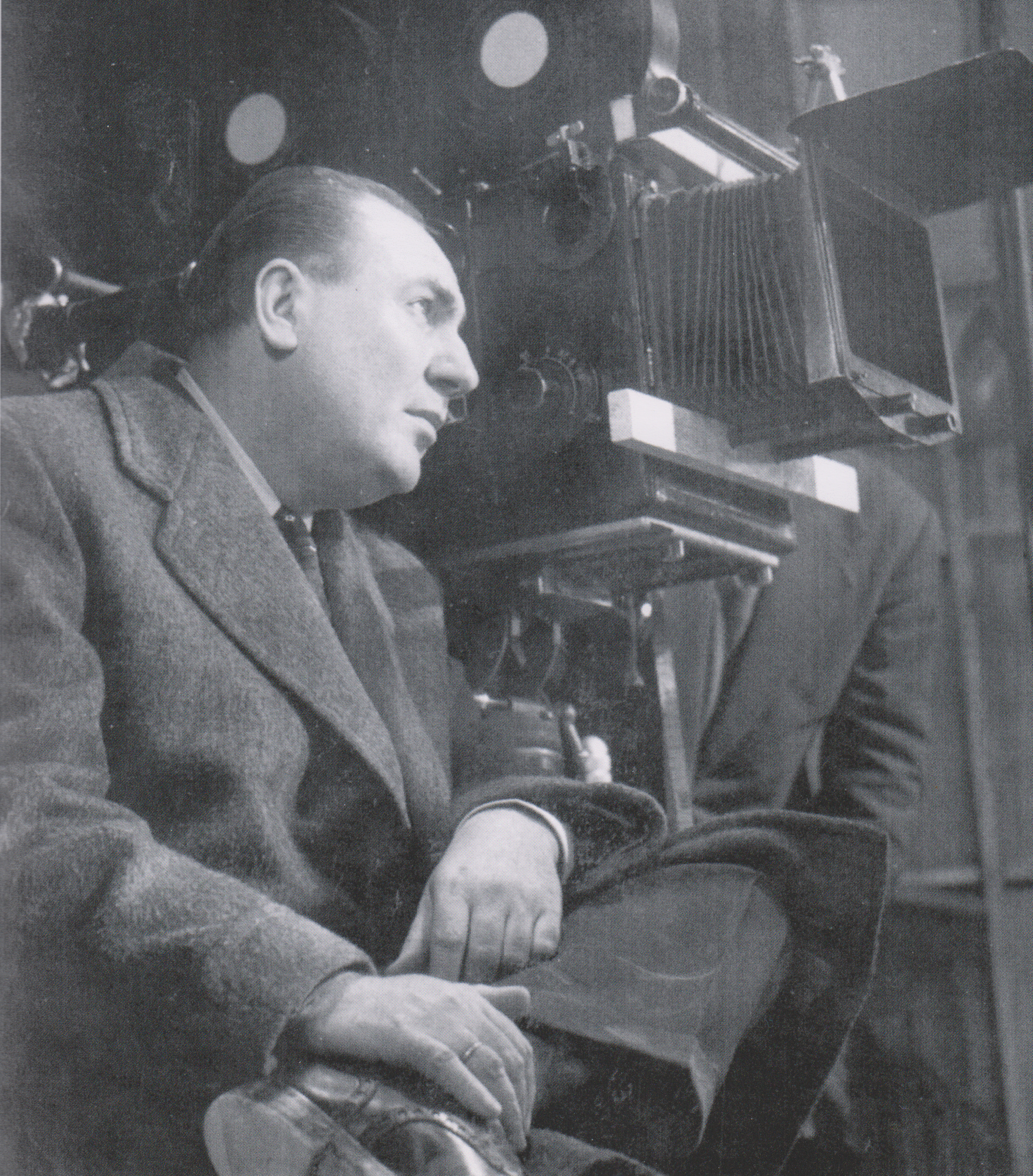 Rafael Gil on 1959